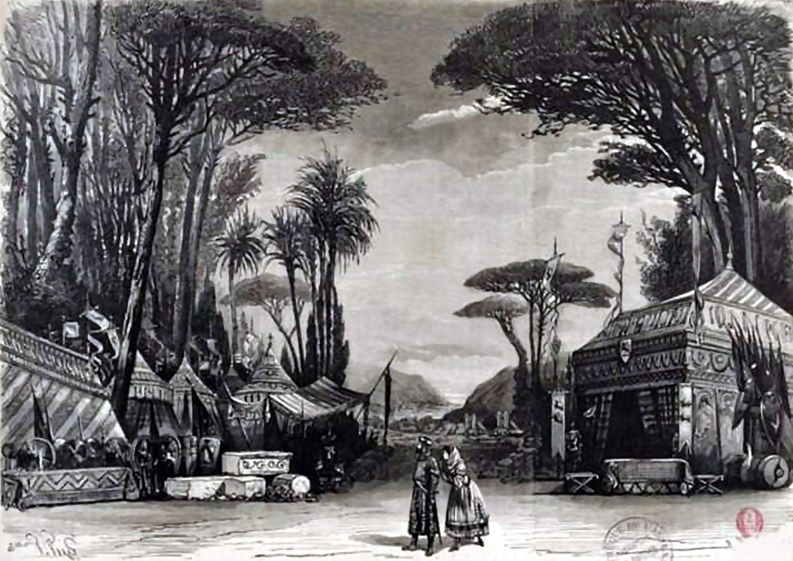 Stage set of the first Act of Robert le Diable (press illustration, 1860)